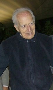 Father Jose Aldunate sj